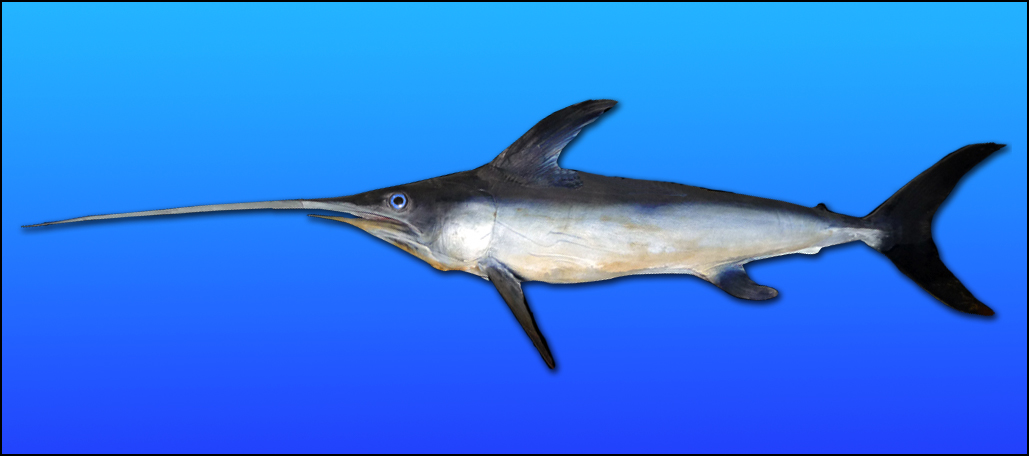 Broadbill Swordfish - Xiphias gladius